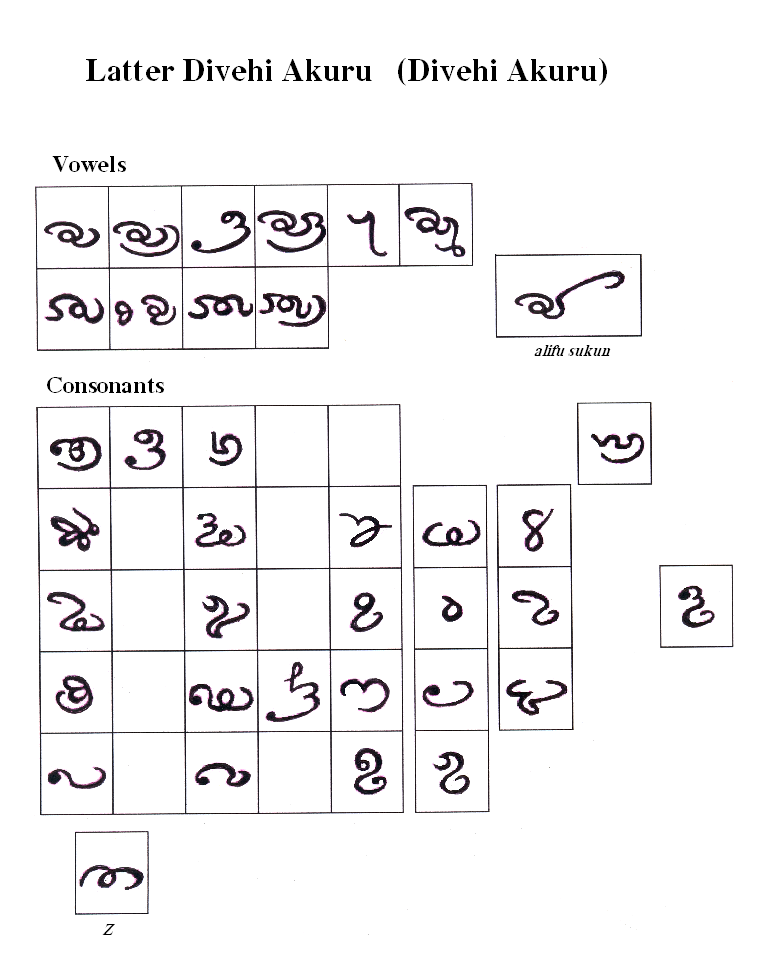 own drawing Drawing for the reedition of Bodufenvaluge Sidi's book "Divehi Akuru" by Xavier Romero-Frias.